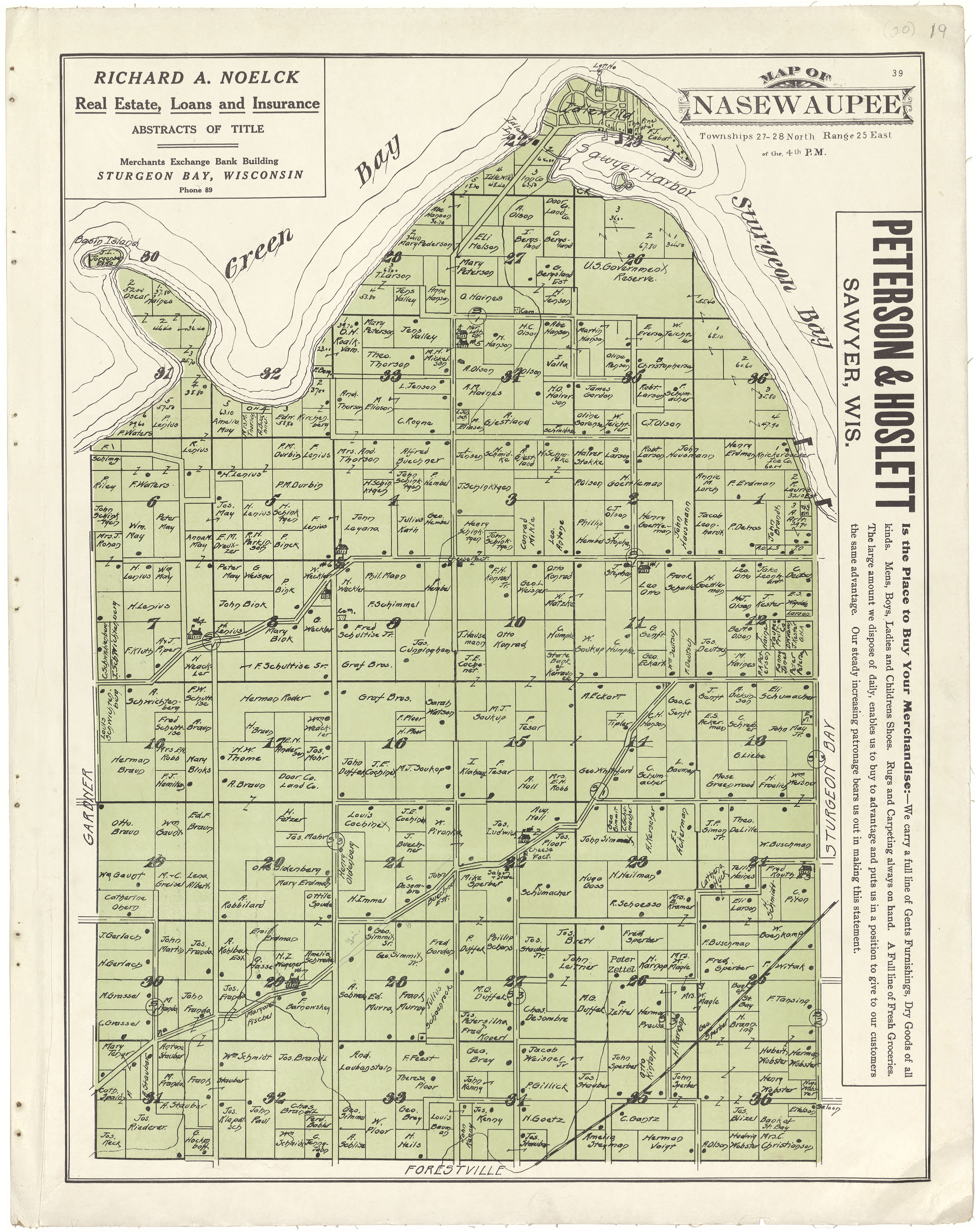 LeGear. Atlases of the United States, 6490 Includes index and advertisements. Available also through the Library of Congress Web site as a raster image. LC copy imperfect: Losses to p. 7-8. Vendor: John Carbonell Acquisitions control no. 2008-087